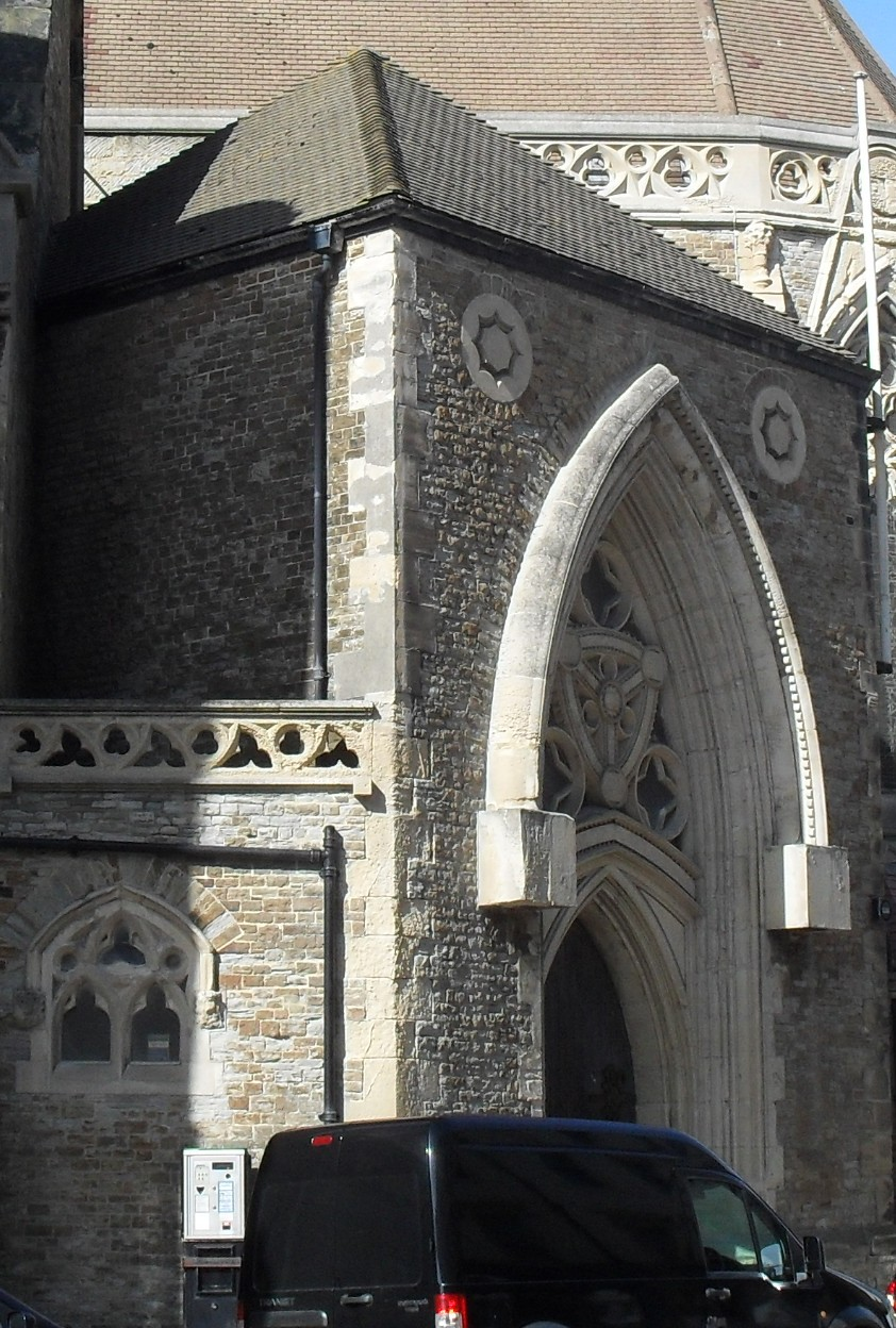 Porch of Holy Trinity Church, Robertson Street, Hastings, East Sussex, England. Built between 1857 and 1862 by S.S. Teulon on a difficult site in the town centre. The interior is opulently decorated. Listed at Grade II* by English Heritage (IoE Code 294055)